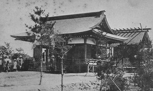 Tieling Shrine